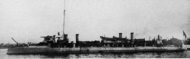 The Imperial Russian torpedo boat Forel' (Vnimatel'nyi) in Le Havre.